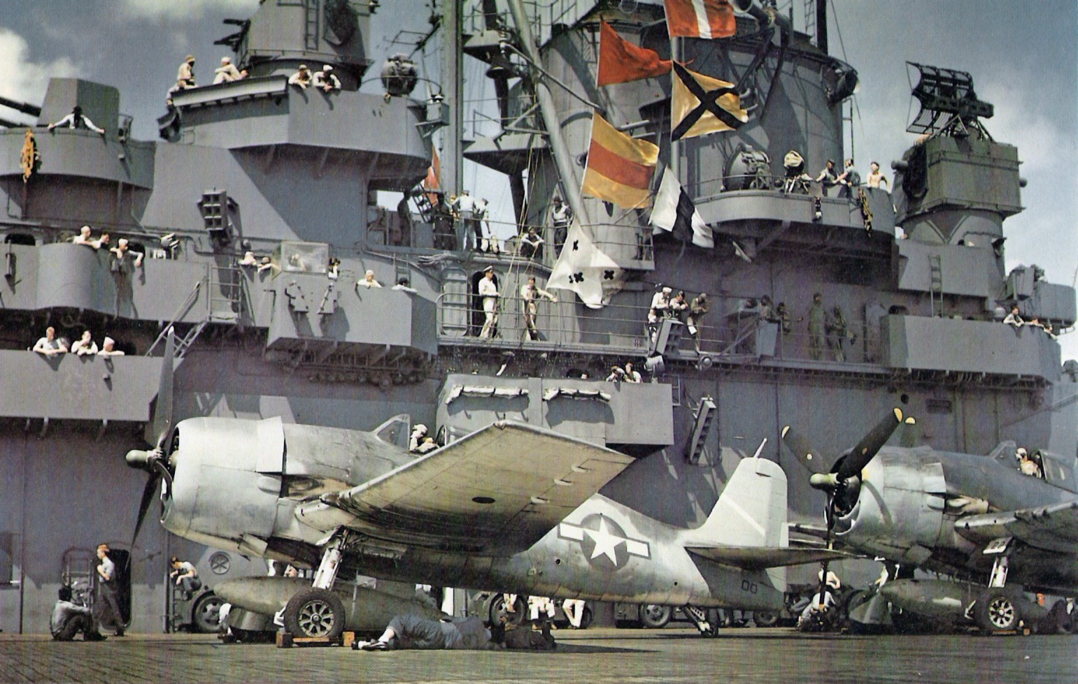 The U.S. Navy aircraft carrier USS Yorktown (CV-10) during the Marcus Island raid on 31 August 1943: Lt. Comdr. James H. "Jimmy" Flatley,Commander of Air Group 5 (CAG-5), sits in his Grumman F6F-3 Hellcat (code "00"), painted in a tricolor-scheme (certainly an "in the field" application) before takeoff. An Aviation Boatswain Mate stands ready to remove chock from wheels. A non-specular insignia white diagonal stripe on the tail and the green propeller hub signified CAG-5 aboard the Yorktown.